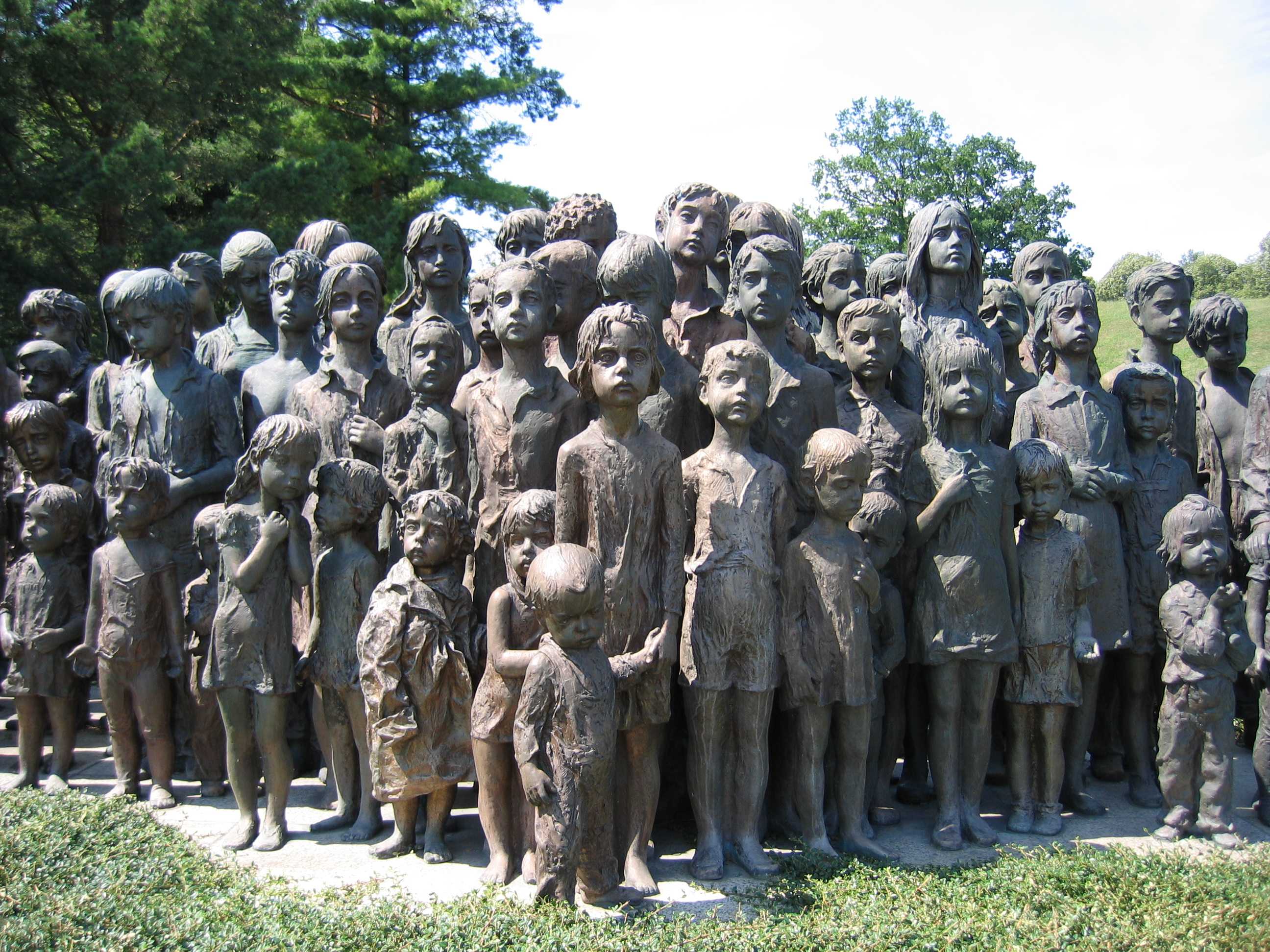 Memorial to the children of Lidice in the park in front of the museum